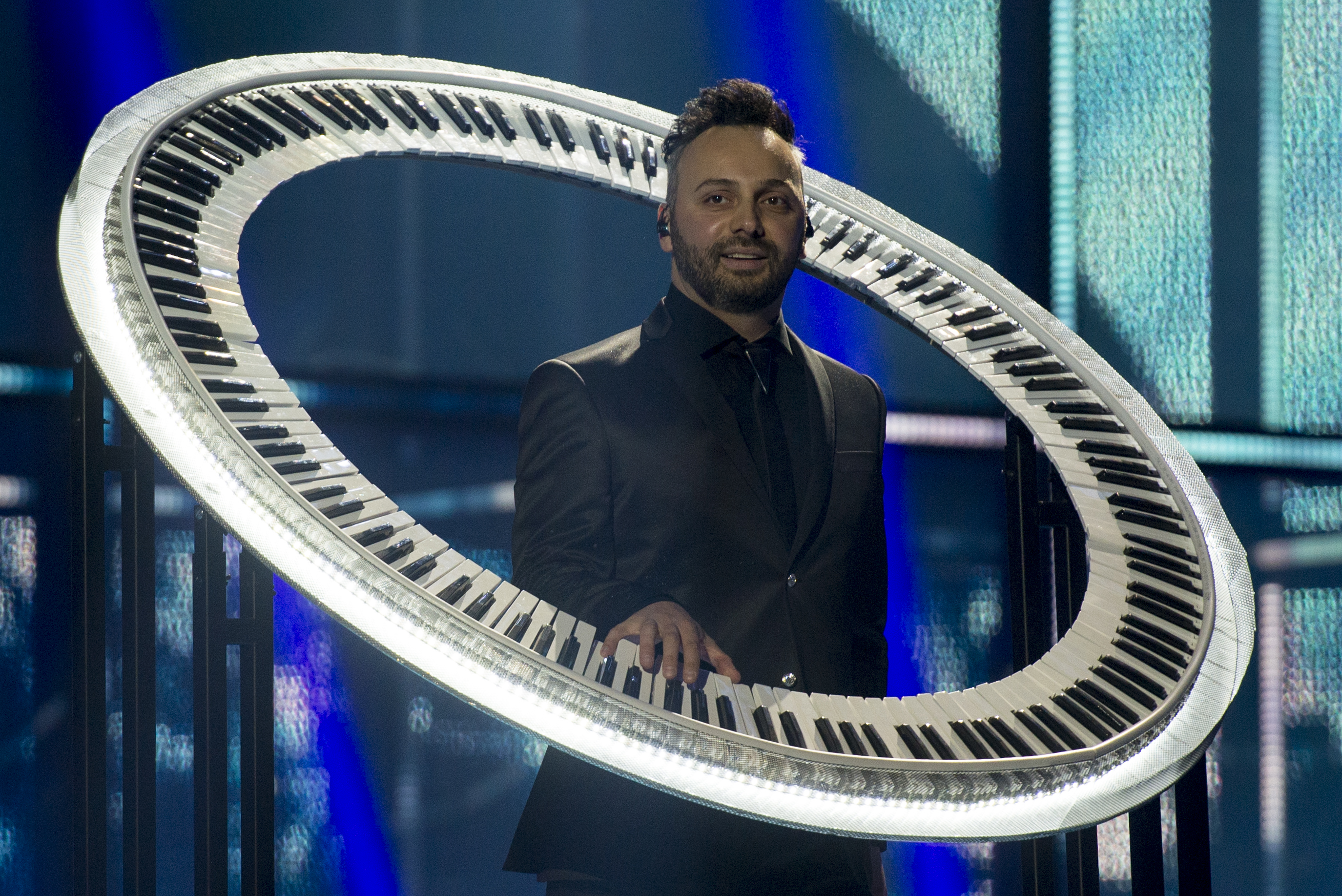 Paula Seling and Ovidiu Cernăuțeanu representing Romania with the song "Miracle" during the first dress rehearsal of the second semi final of the Eurovision Song Contest 2014 Copenhagen. (Help translate this text)